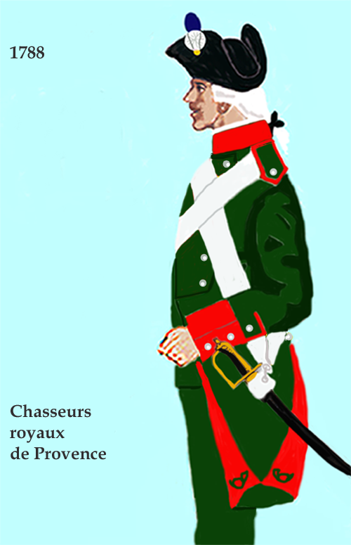 Uniforms of the french rifles of foot in 1788